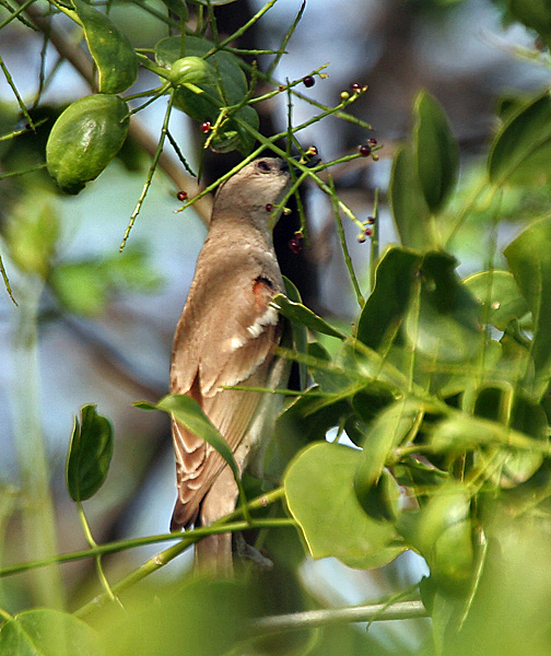 Chestnut-shouldered Petronia (Petronia xanthocollis) at Keoladeo National Park, Rajasthan, India.